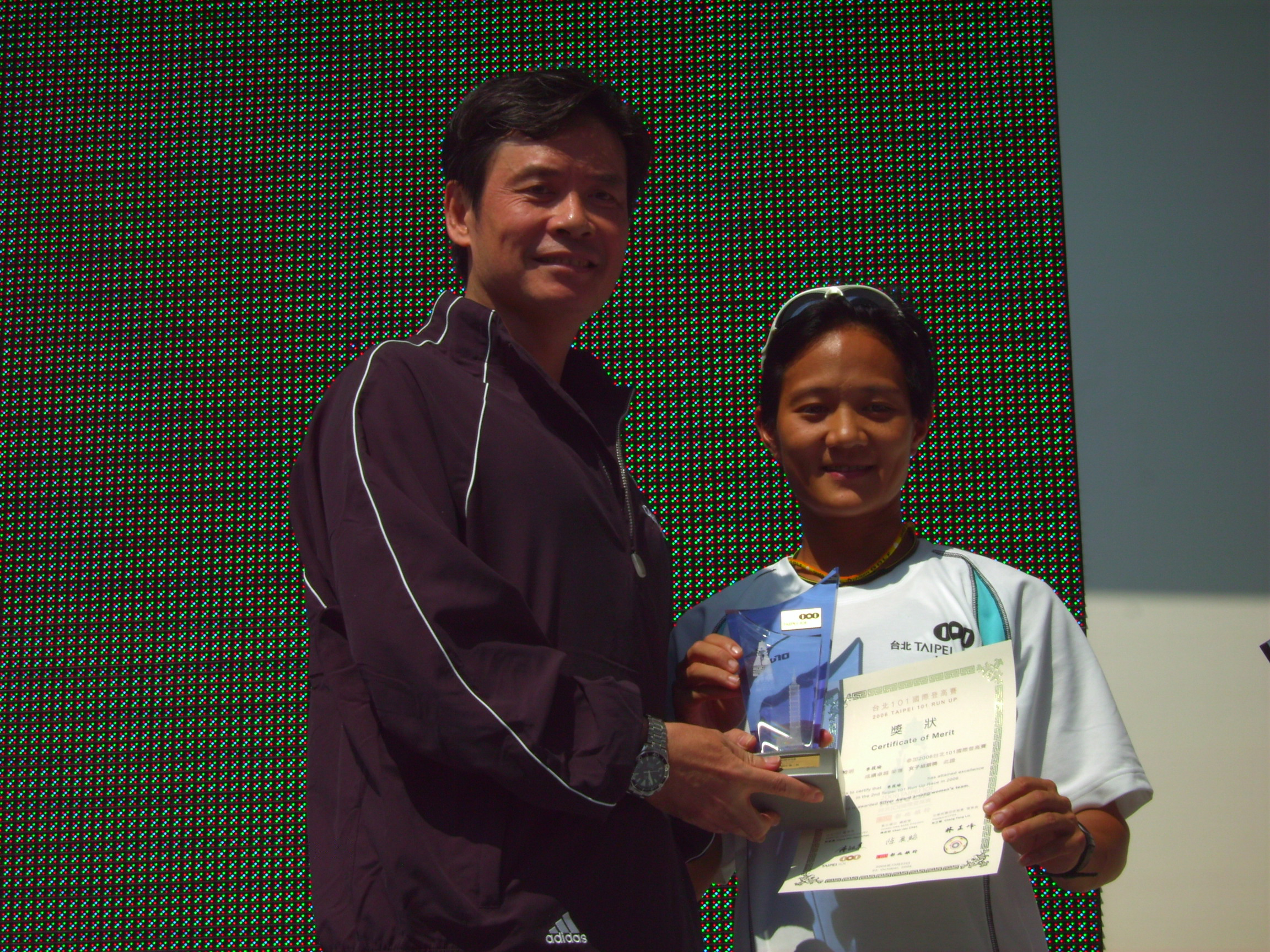 Xiao-Yu Li wins the 2nd Place in Women's Elite Group at 2006 Taipei 101 Run Up.